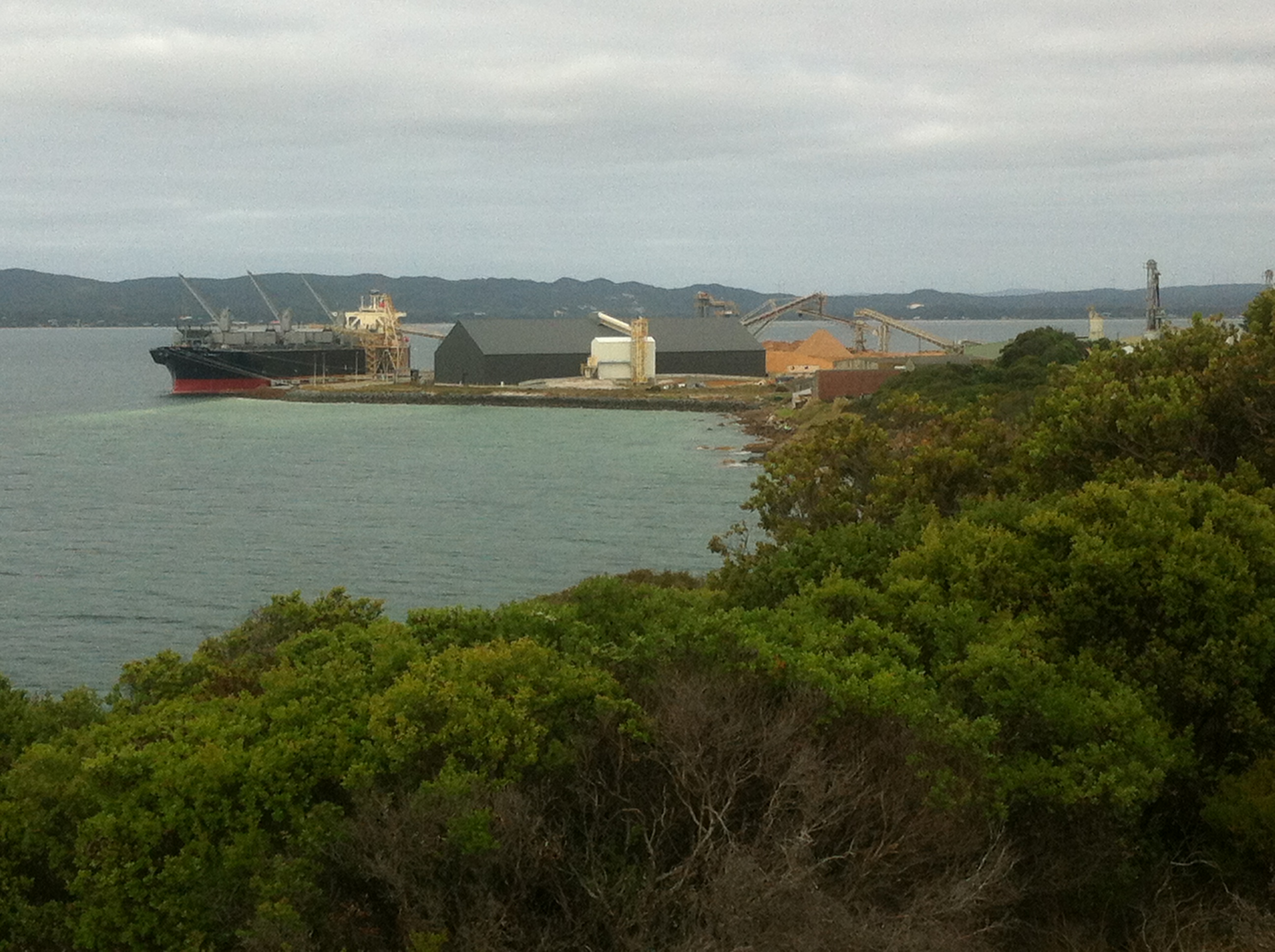 Albany Port ship loading from Ataturk Entrance